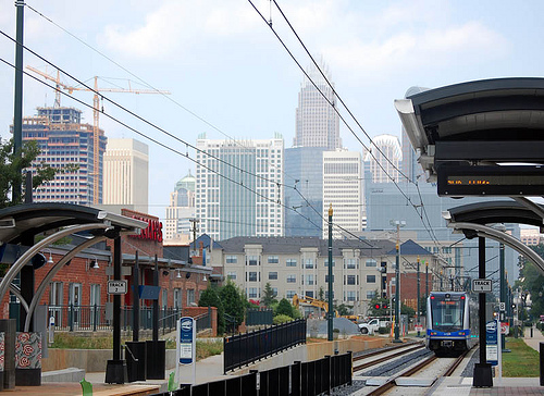 Looking North from the Bland Street Station on the LYNX Blue Line light rail system in Charlotte, NC.